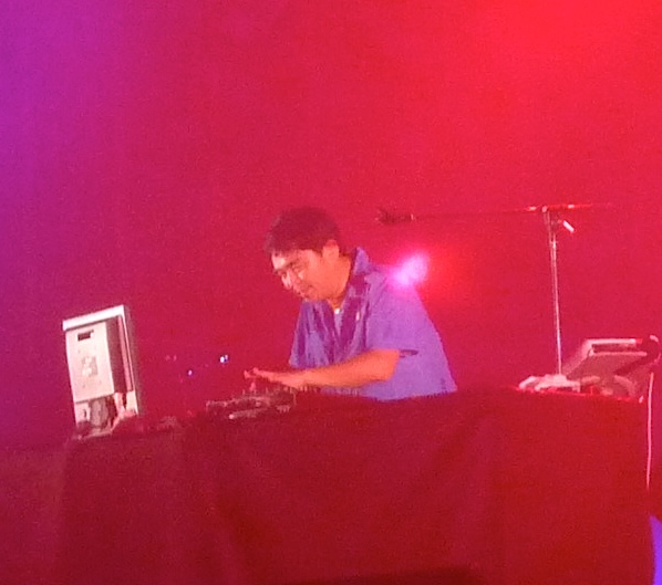 Takkyū Ishino of Denki Groove fame